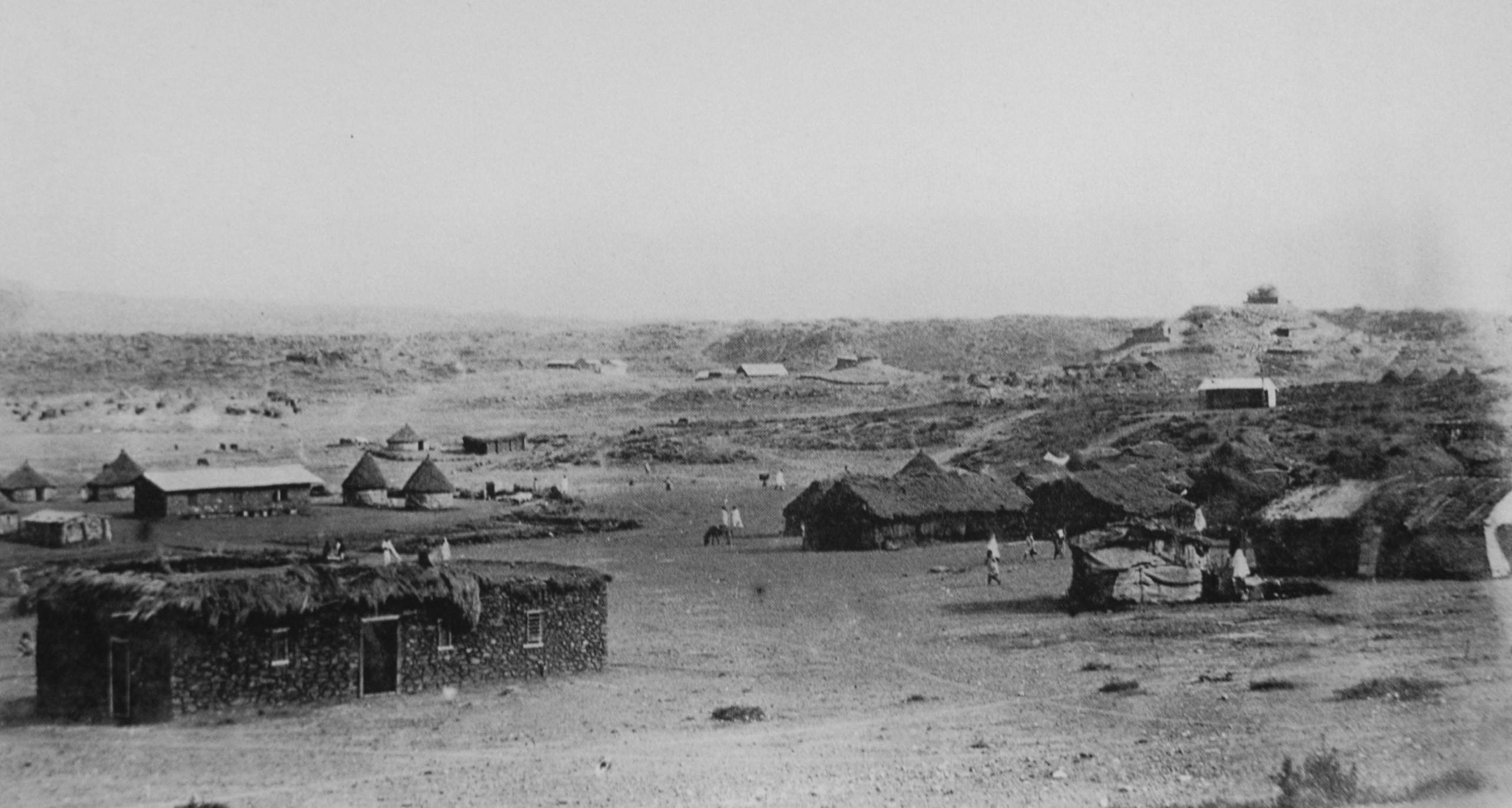 Asmara under Ras Alula's leadership (1889)